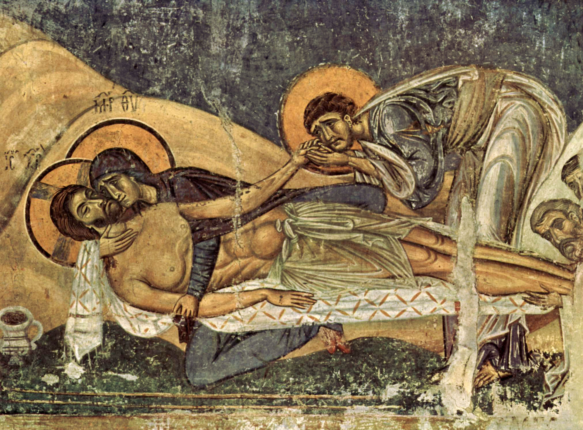 with a unique blend of high humanity, Greek Tragedy, humanity, Christianity and Realism represents the anticipatory artistry before the Italian Renaissance in Byzantium